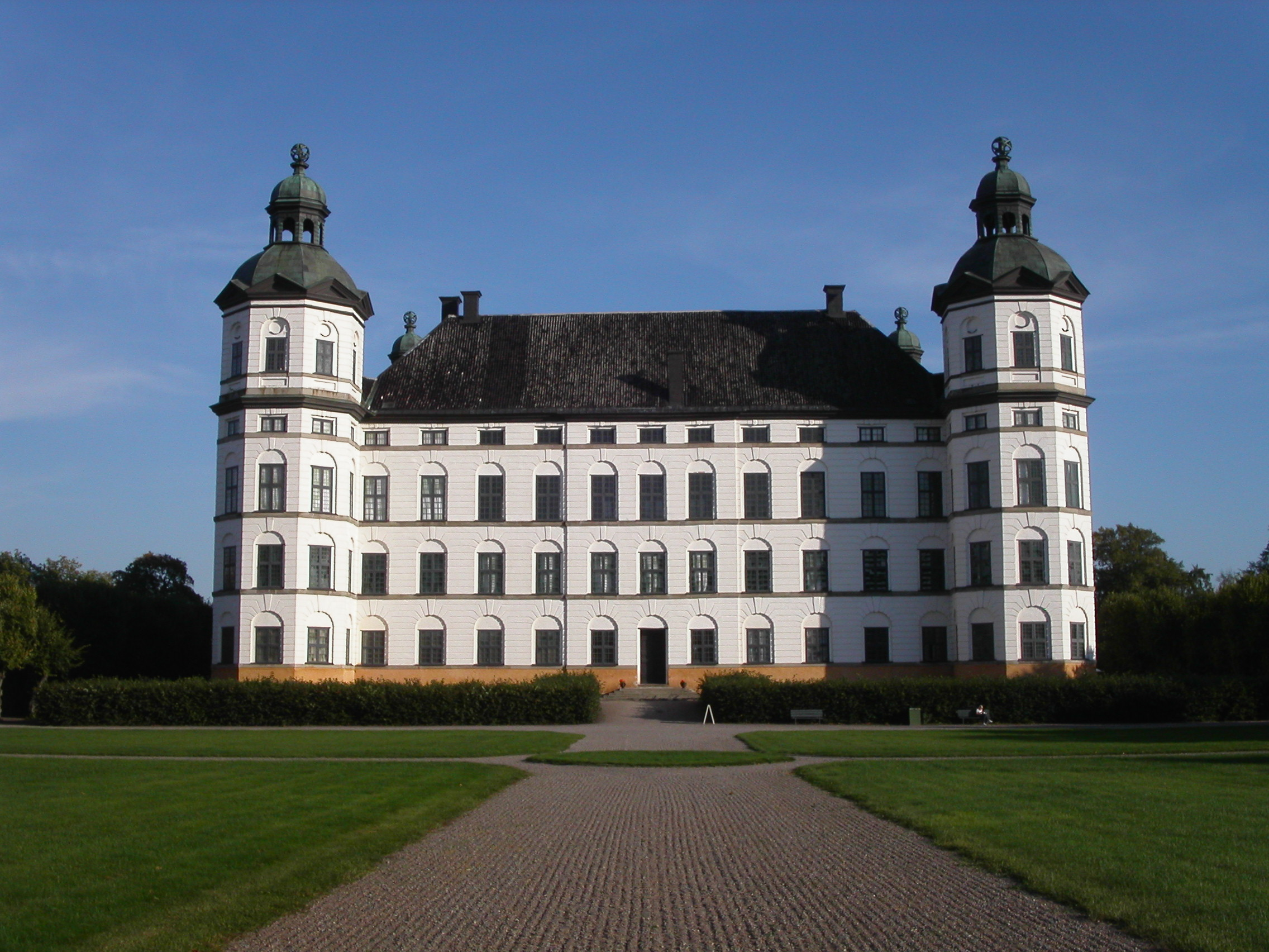 Skokloster Castle, Sweden. Built in 1654-1676, designed by the architect Nicodemus Tessin the Elder.